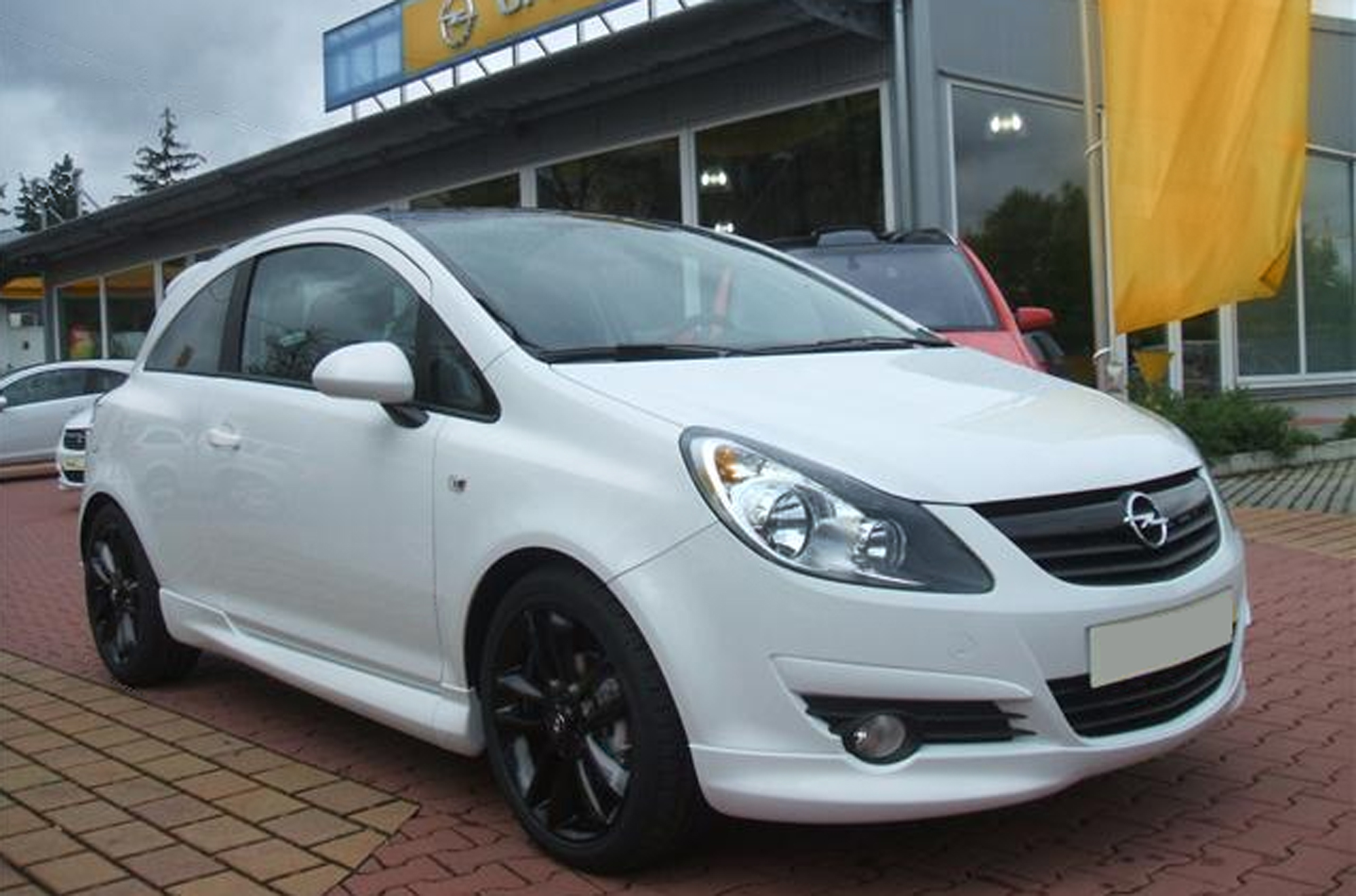 a 3 doors opel corsa